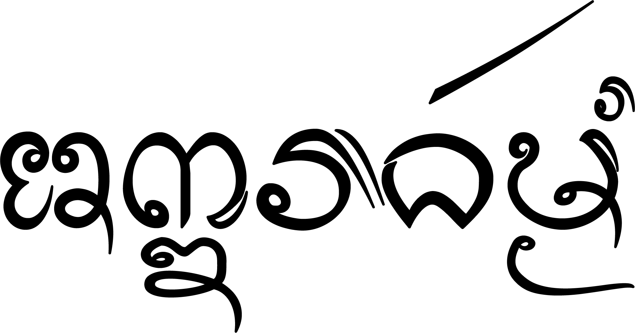 Tai Tham script "akkhara dhamma".